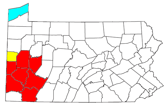 Locator map of the Greater Pittsburgh metro area in the southwestern region of Pennsylvania. Red denotes the Pittsburgh Metropolitan Statistical Area. Yellow denotes the New Castle Micropolitan Statistical Area, which is included in the Pittsburgh-New Castle CSA.